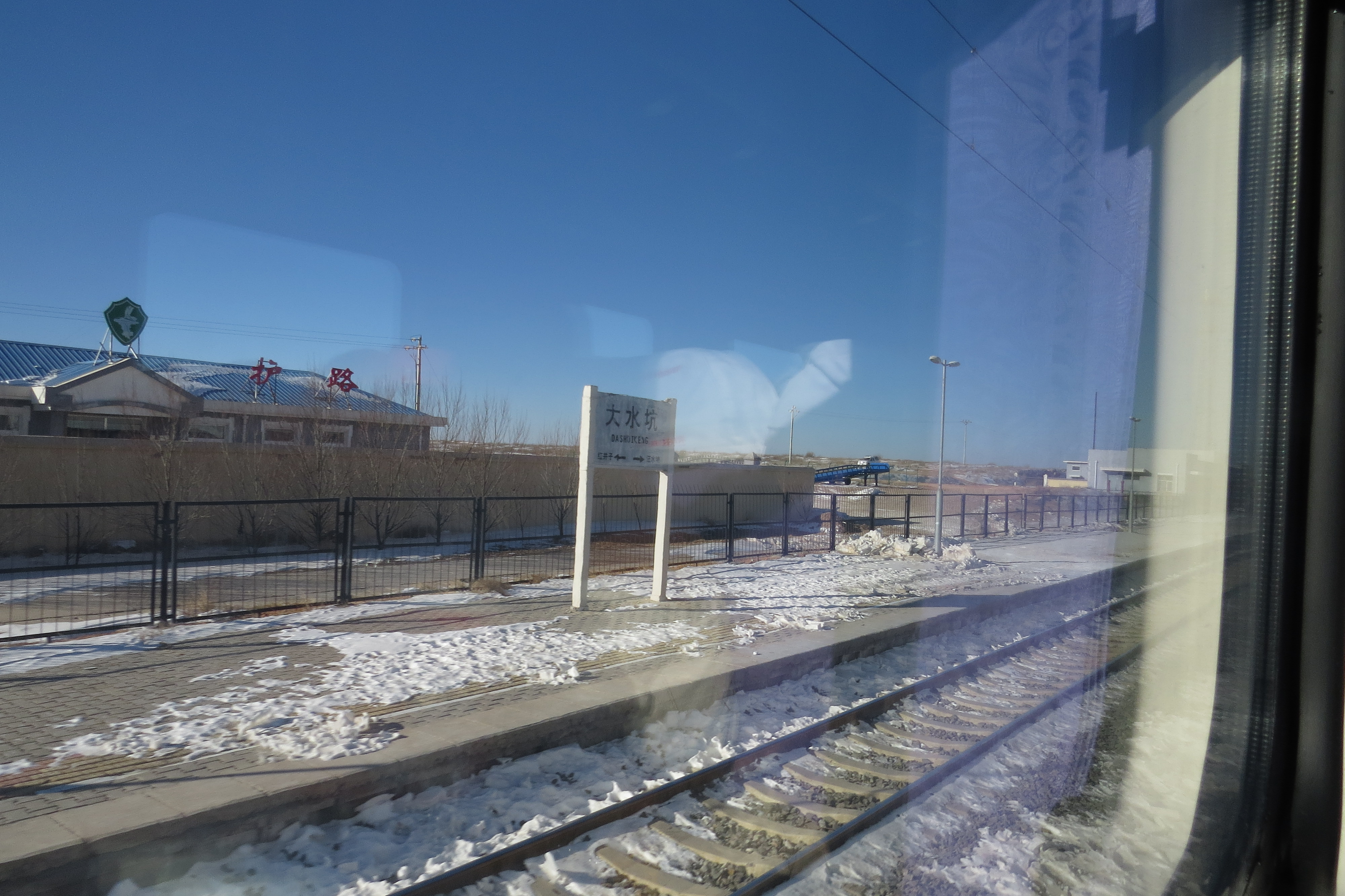 Just a small station on TZYR.